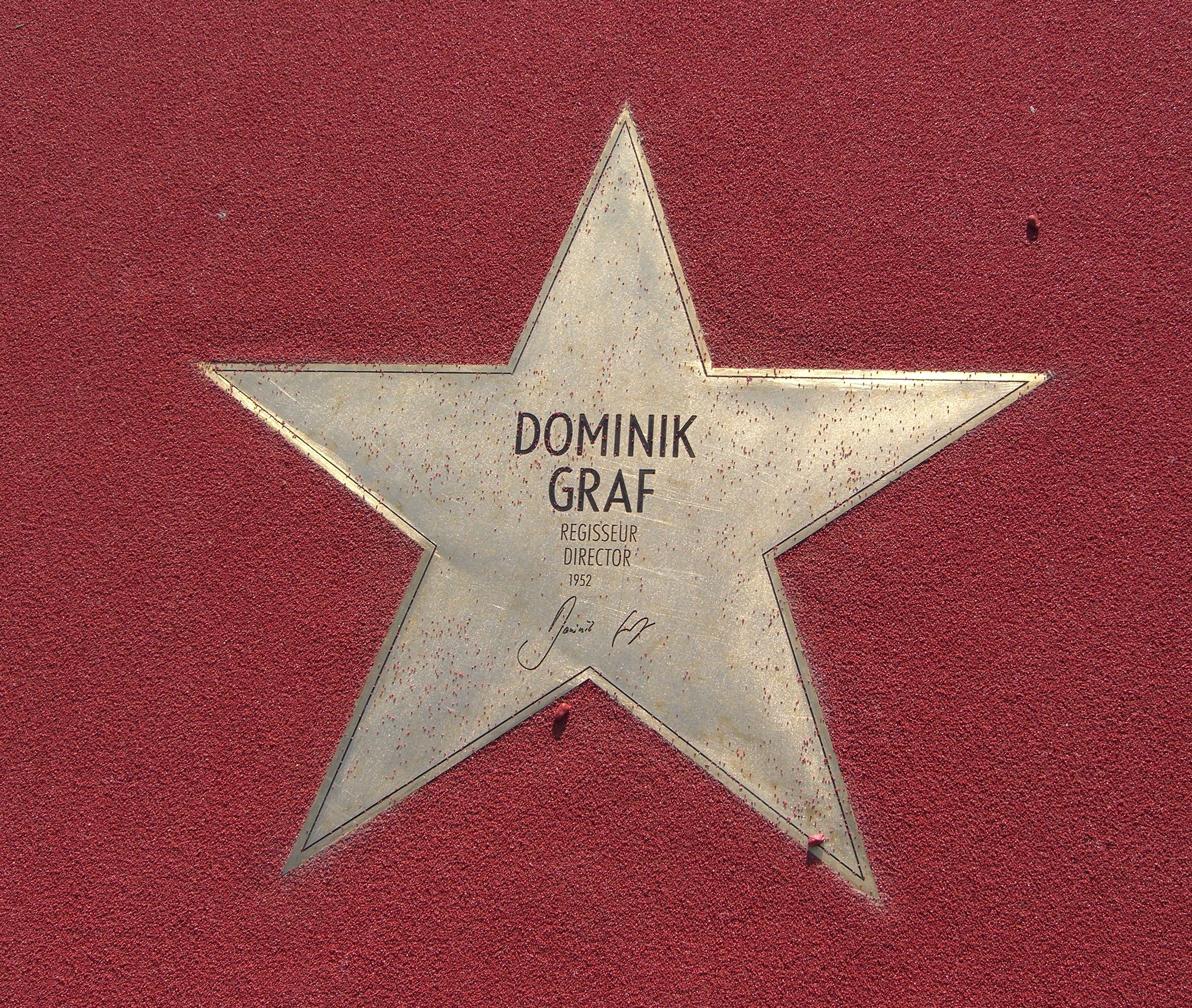 Star of Dominik Graf at "Boulevard der Stars" in Berlin.